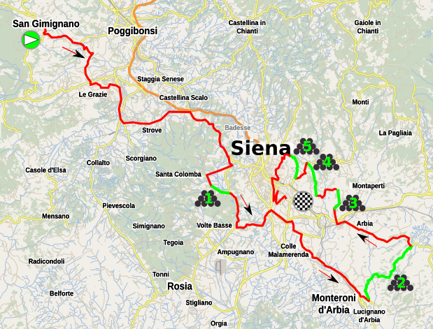 Map of the Strade Bianche 2015 (women). The trace is approximative.